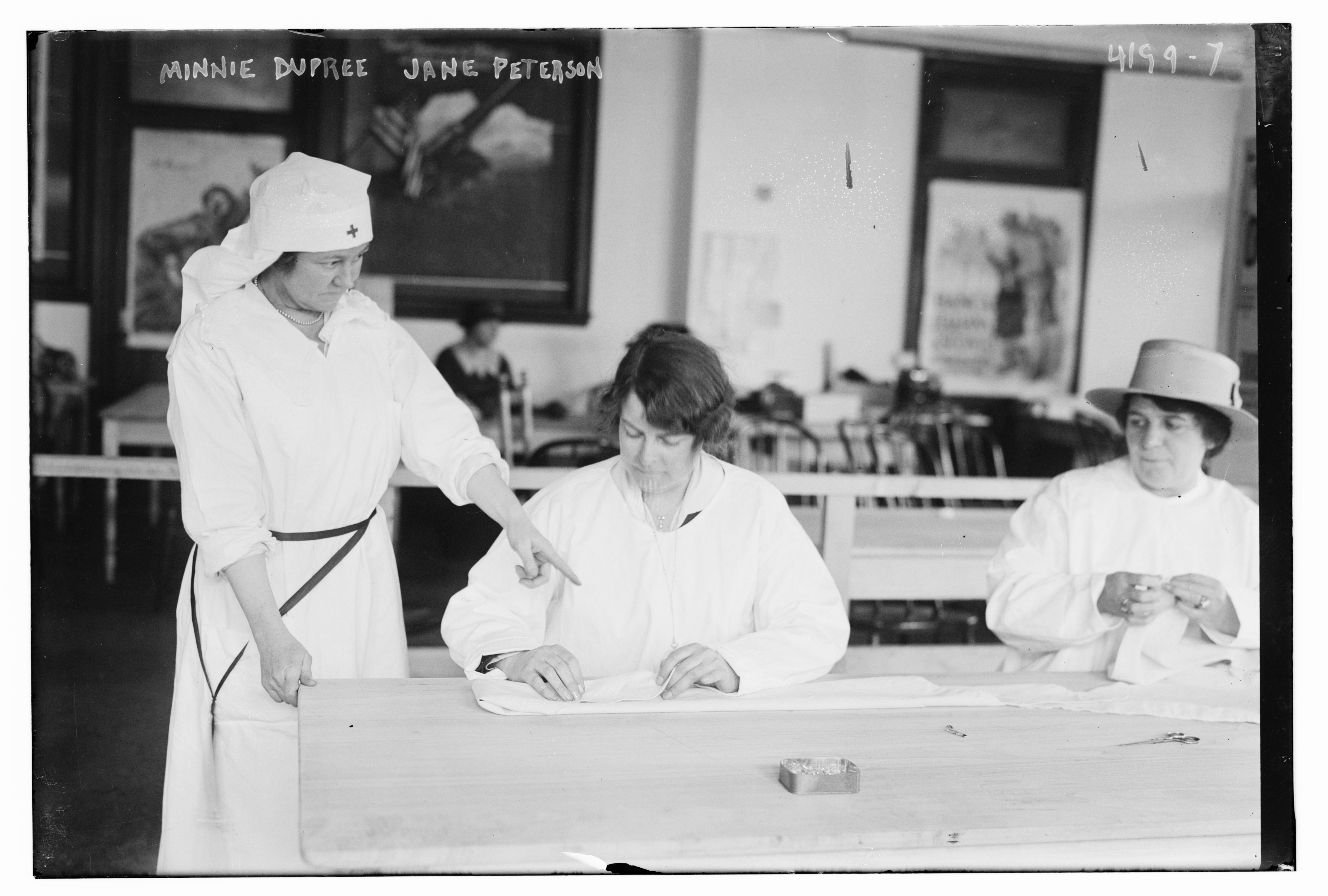 Bain News Service,, publisher. Minnie Dupree, Jane Peterson [between ca. 1915 and ca. 1920] 1 negative : glass ; 5 x 7 in. or smaller. Notes: Title from unverified data provided by the Bain News Service on the negatives or caption cards. Forms part of: George Grantham Bain Collection (Library of Congress). Format: Glass negatives. Repository: Library of Congress, Prints and Photographs Division, Washington, D.C. 20540 USA, General information about the Bain Collection is available at Higher resolution image is available (Persistent URL): Call Number: LC-B2- 4199-7